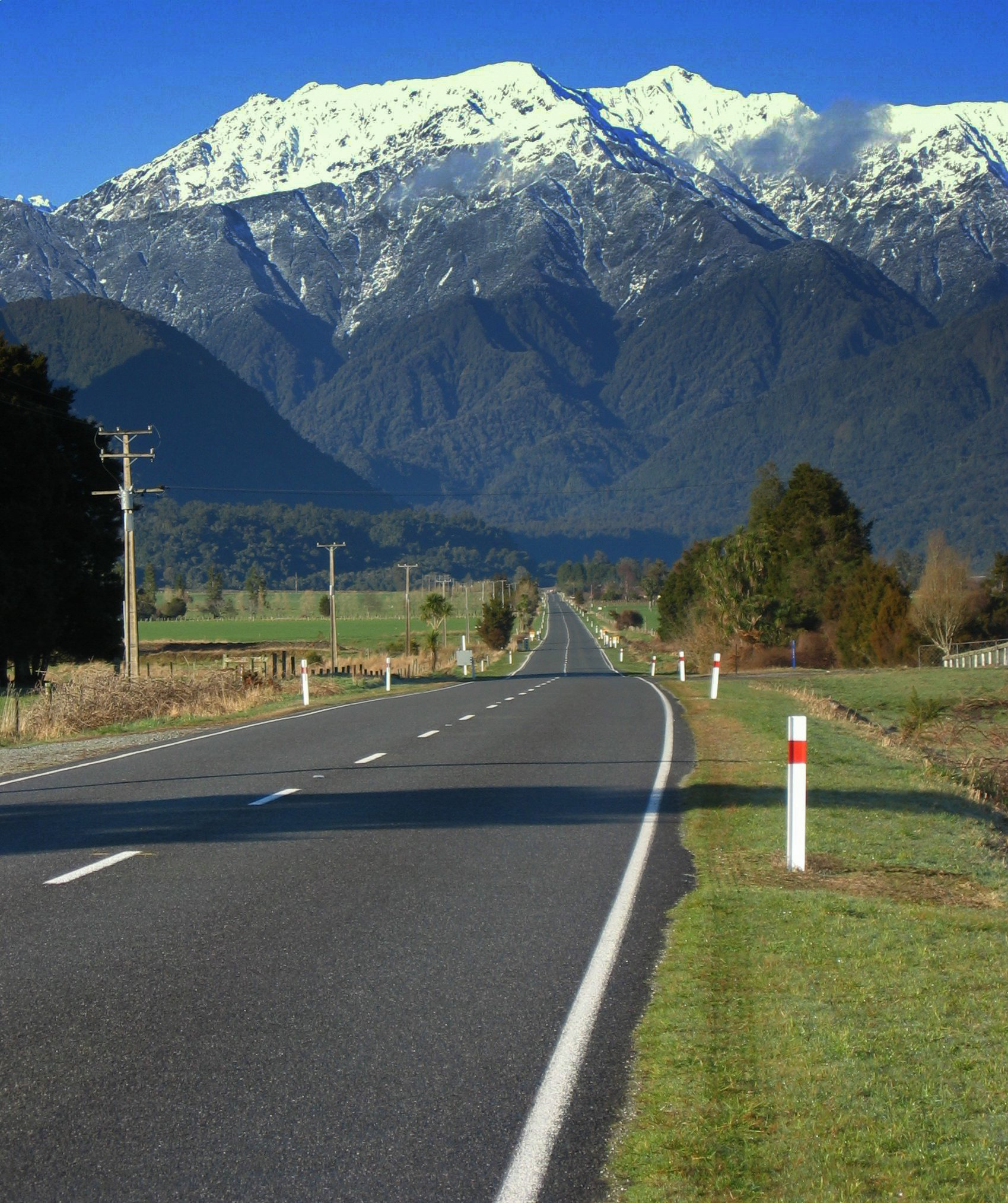 Southern Alps, New Zealand, Looking South, Evans Straight, Hari Hari, South Westland.